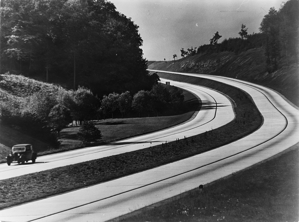 An automobile on the sweeping curves of the Deutsche Autobahn with view of the forest. The driver's experience of the forest, assigned symbolic importance in German Romanticism and particularly under the Nazis, was maximized by avoiding straightaways in forested areas so that the driver remained enclosed by the trees as long as possible. This image is part of the exhibition Wood, that opens on May 16. See more info on the website